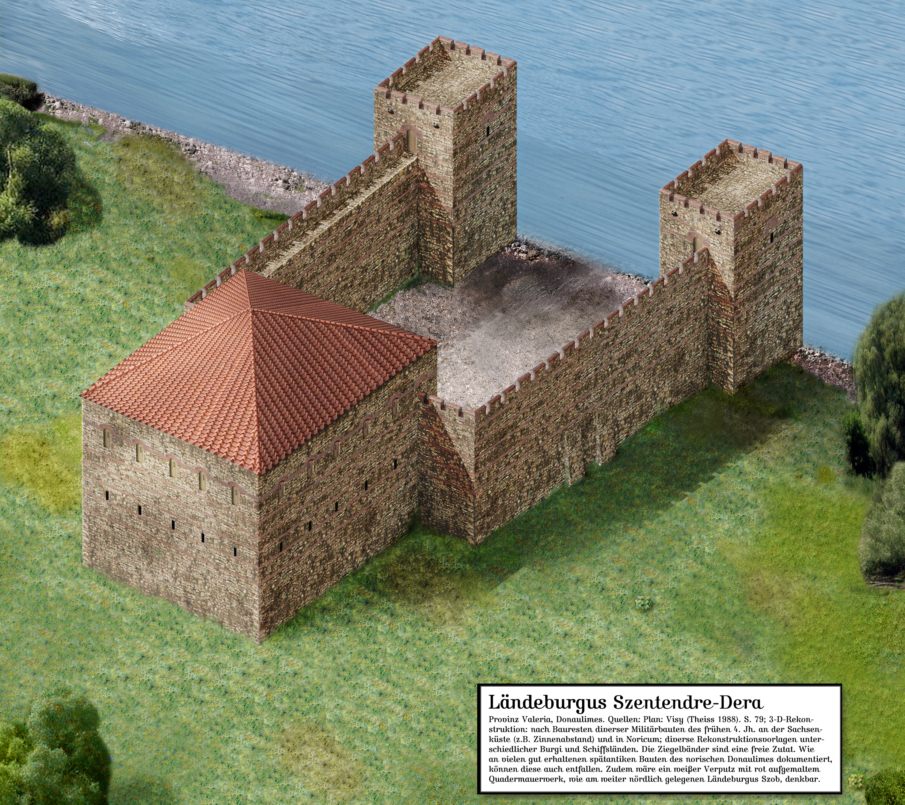 Roman Burgus Szentendre-Dera, Danube frontier (HU)